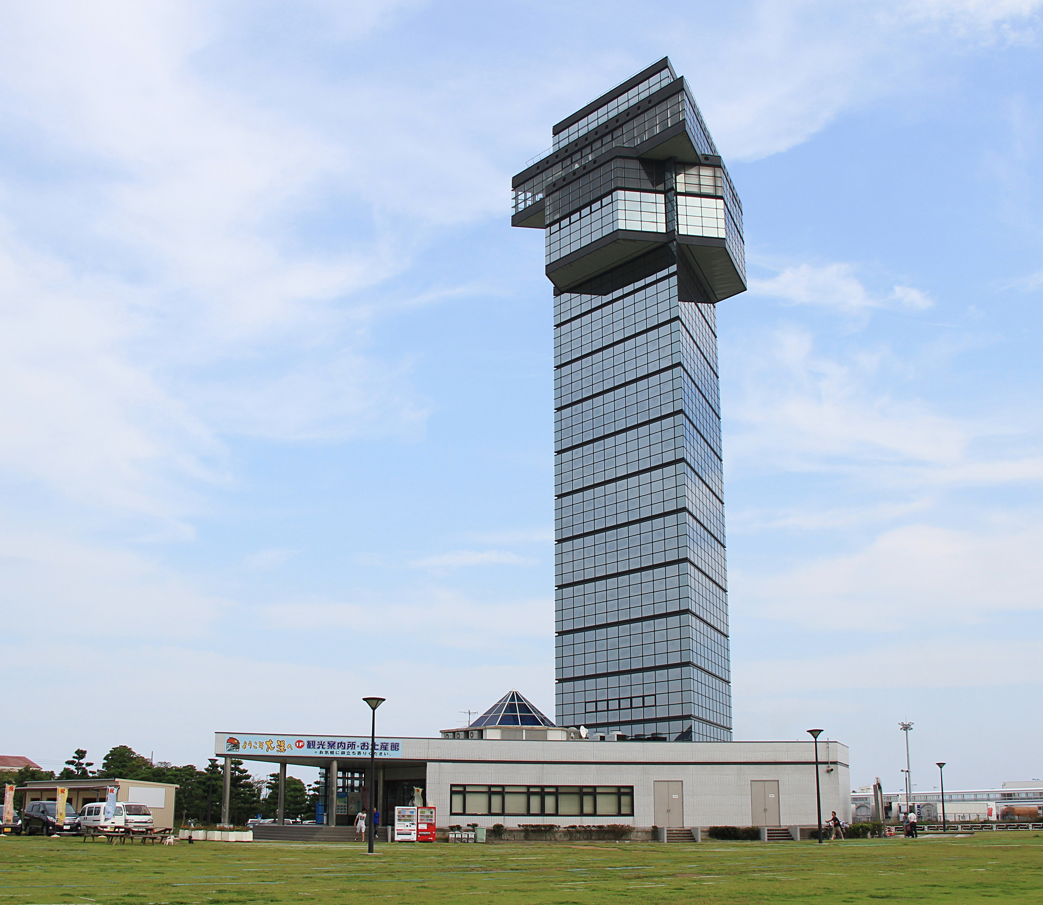 Oarai Marine Tower